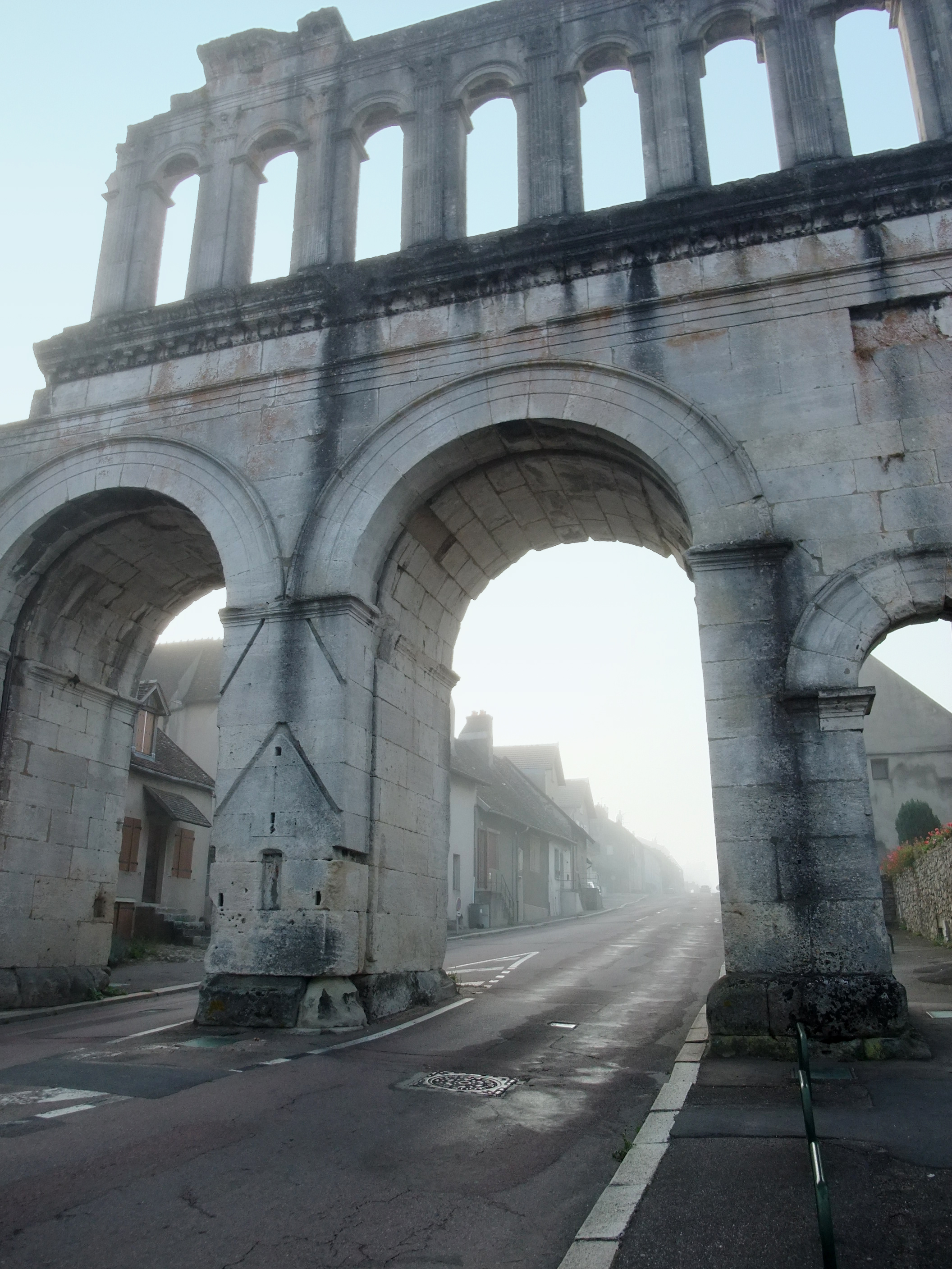 Port d'Arroux in Autun, Burgundy, France